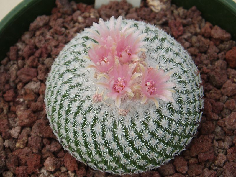 Epithelantha, succulent plant